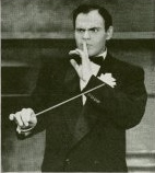 George S. Irving, from a 1953 souvenir program for Me and Juliet. Lacks any copyright notice, so it is no longer under copyright. Image can be found here